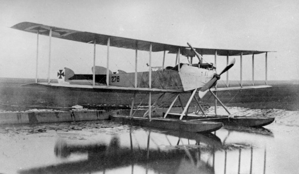 Gotha WD.8